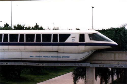 A Picture of a Mark IV monorail.